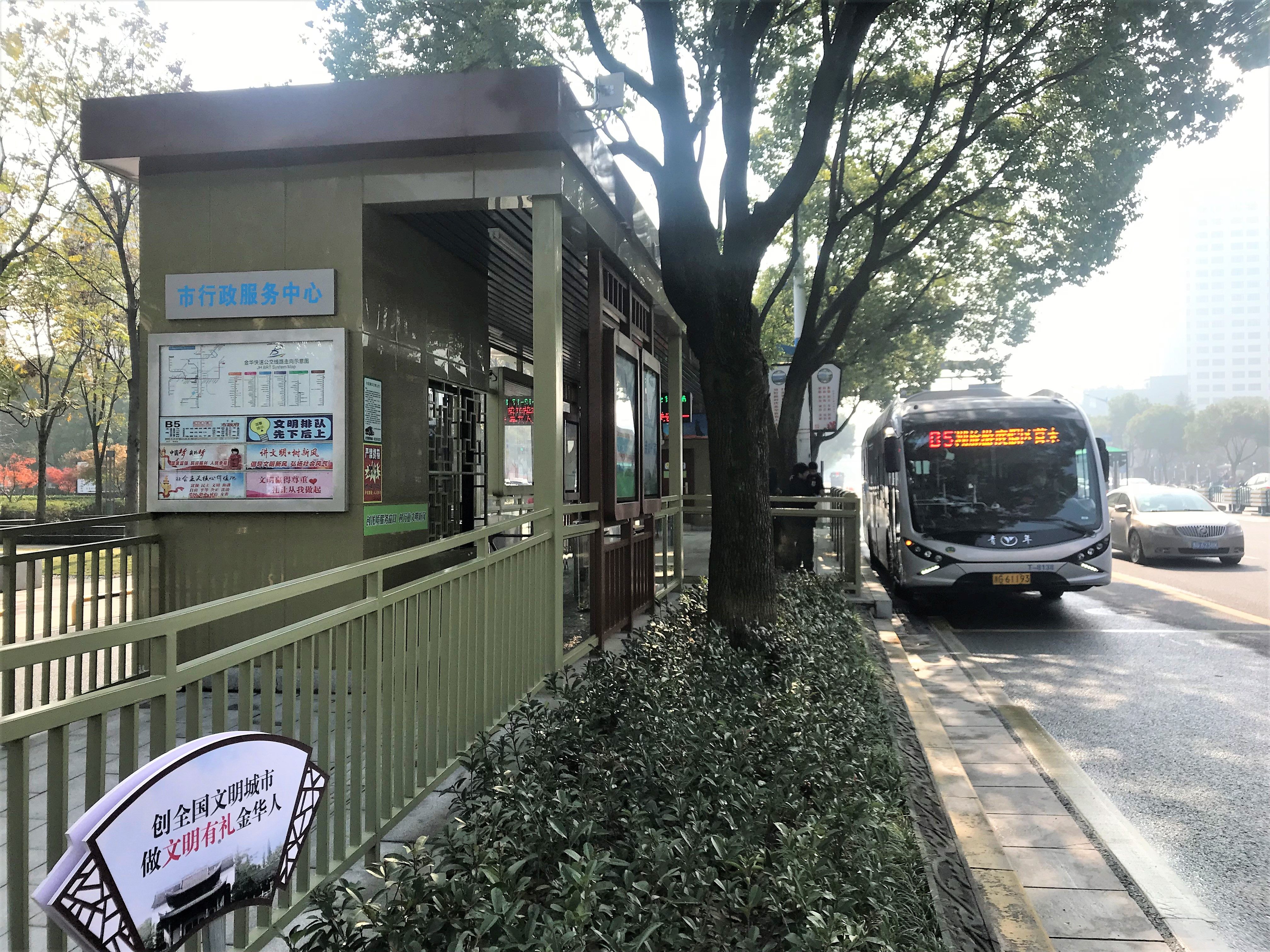 201812 Jinhua BRTL5 Civil Service Center Station Northbound